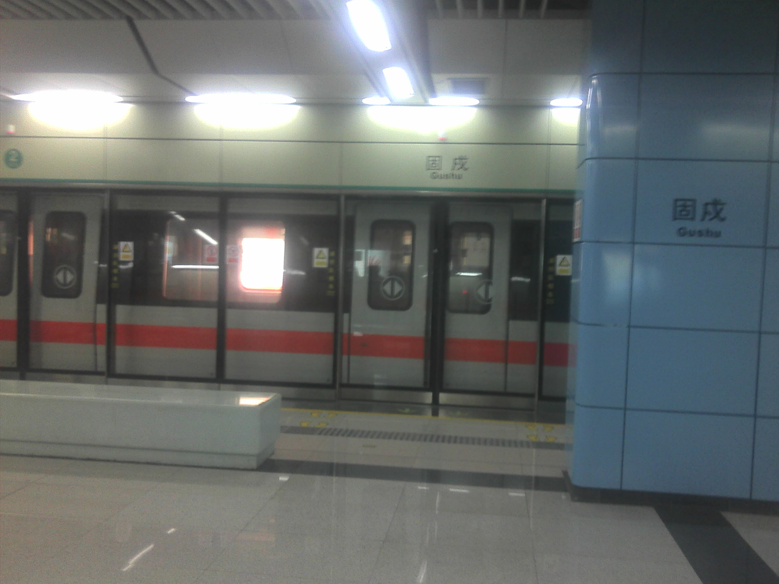 This photo was taken as Nov 19, 2011.